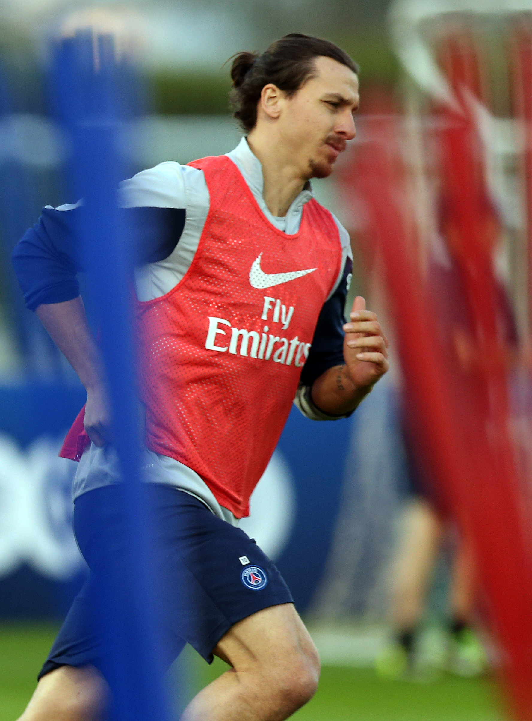 Paris Saint-Germain's Zlatan Ibrahimovic runs during a training camp in Doha. Pic by Vinod Divakaran